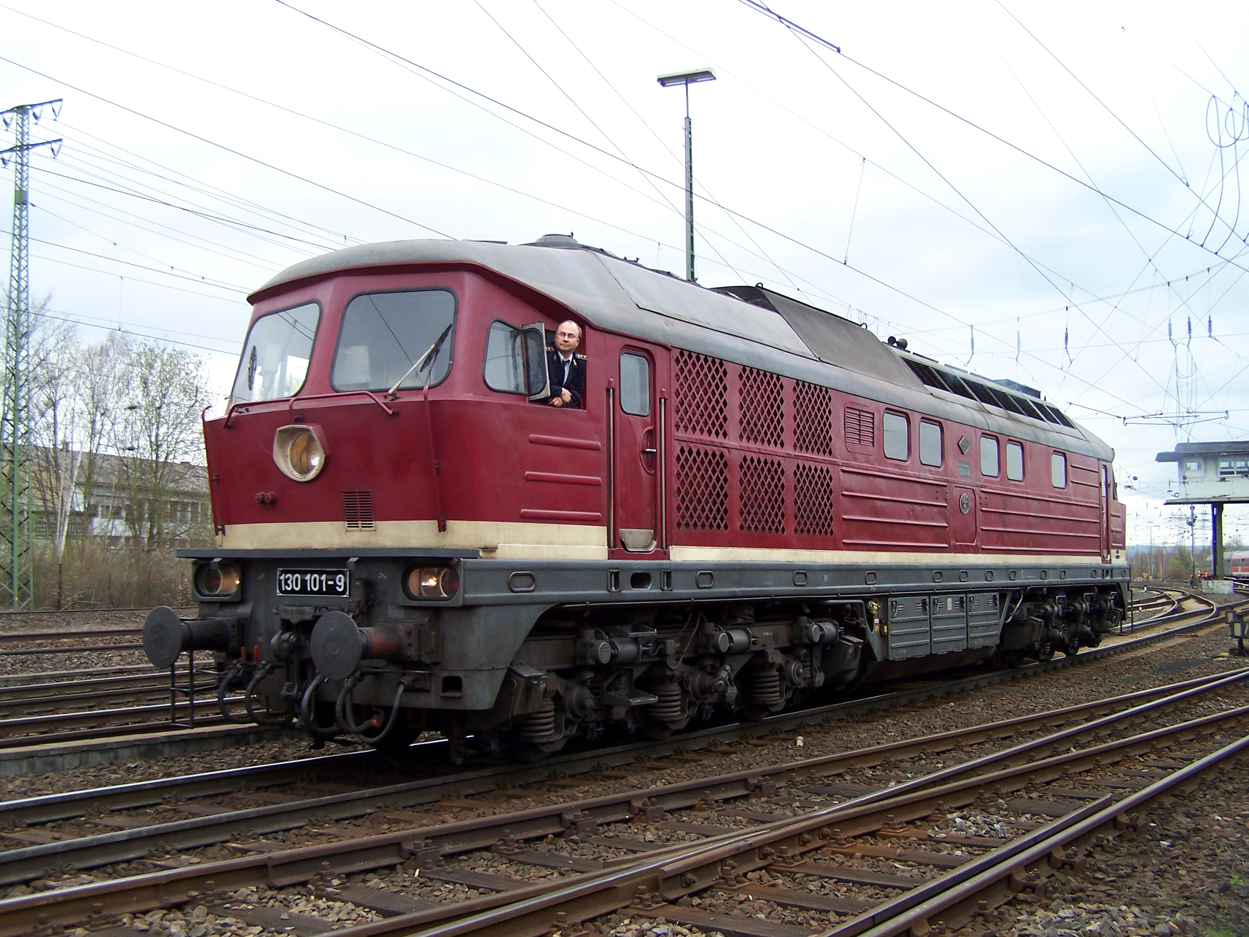 Diesel locomotive 130 101 during a locomotive parade at the DB Museum in Koblenz-Lützel, a local branch of the Transport Museum in Nuremberg, April 2010